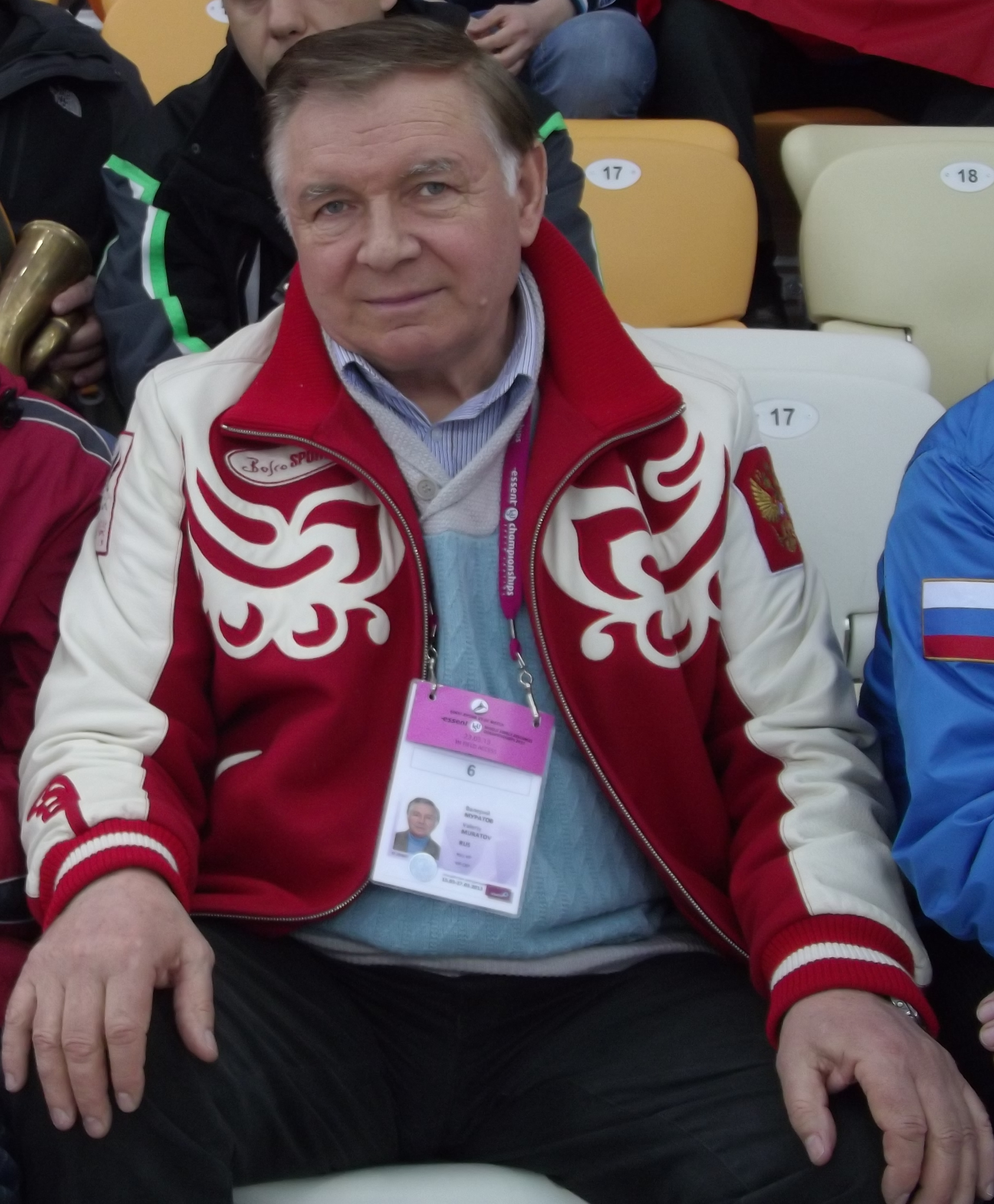 2013 World Single Distance Speed Skating Championships